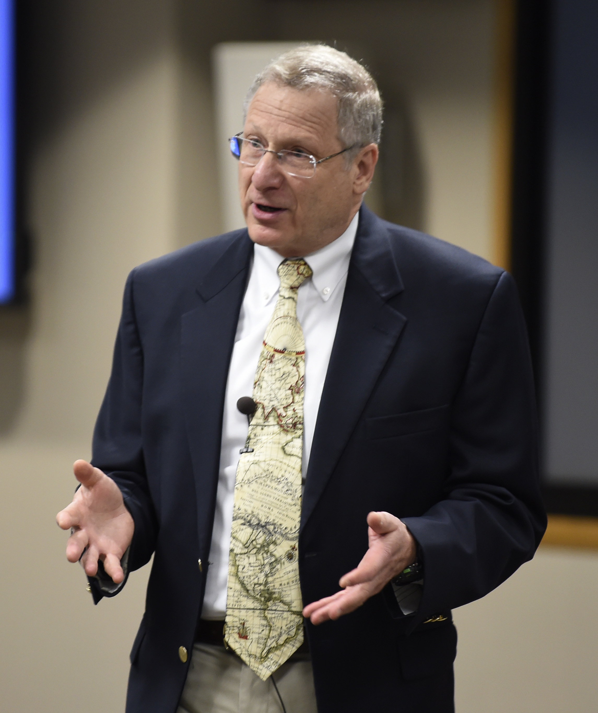 Dr. Larry Mayer, director, School of Marine Science and Ocean Engineering, and director, Center for Coastal and Ocean Mapping, University of New Hampshire, talked about the history of sea floor mapping and what to expect in the future during a distinguished lecture held at the Office of Naval Research. Technology advancements are making it possible to map the sea floor at a much greater resolution.